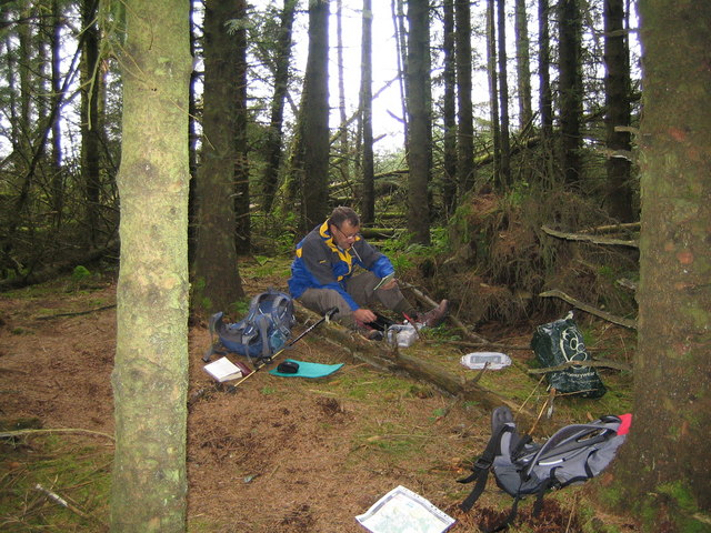 A Summits On The Air (SOTA) activation on Woodhead Hill in Mabie Forest The top of Woodhead Hill in Mabie Forest is heavily forested. This made aerial erection for this Amateur Radio SOTA Activation difficult. Woodhill Hill is one of the Marilyn Hills of the UK.